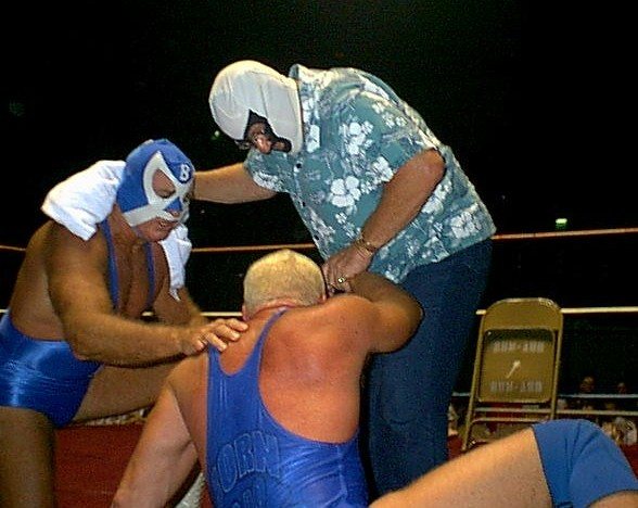 The Bullet Bob Armstrong and son Scott with Mr. Wrestling II are three legends who were major players in the Southeastern and Continental wrestling areas.